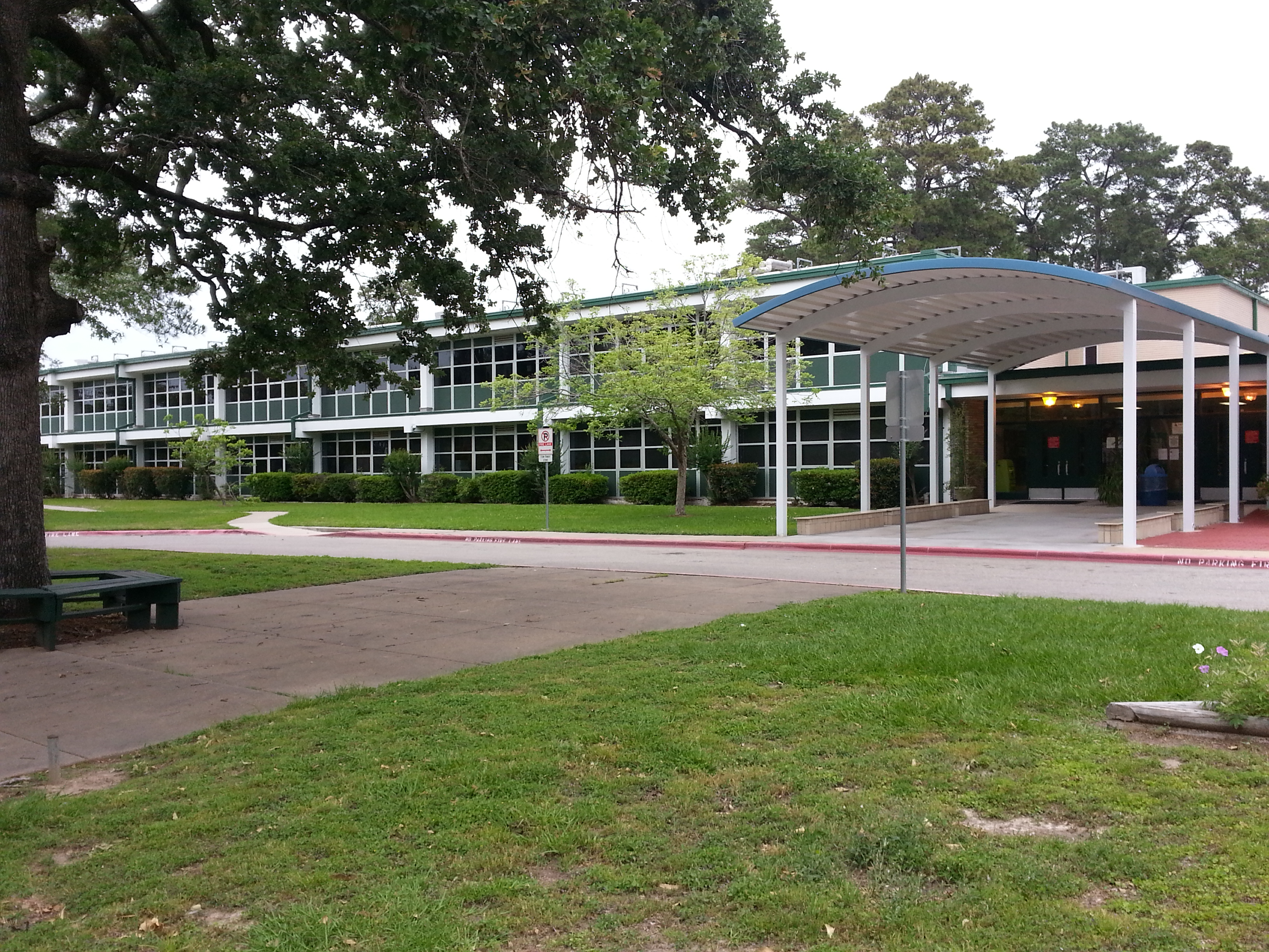 Sinclair Elementary School, Houston, Texas